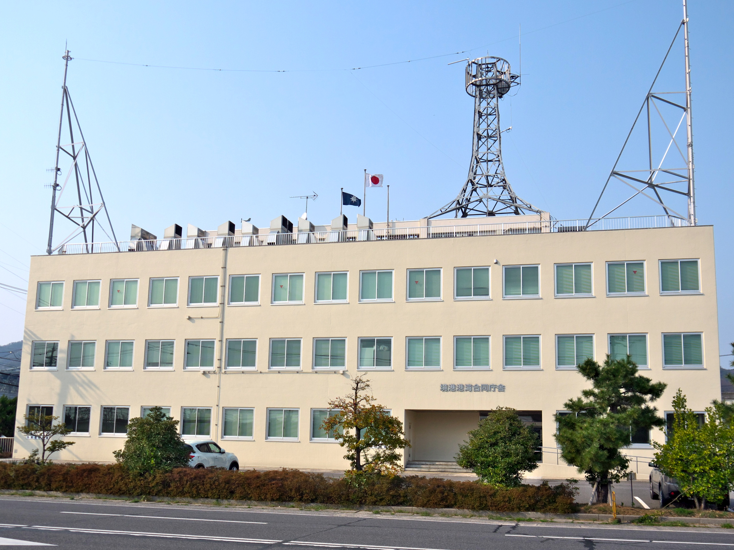 Sakaiminato port joint government building in Sakaiminato, Tottori prefecture 8th Regional Coast Guard Headquarters / Sakai Coast Guard Office Chugoku District Transport Bureau Tottori Transport Branch Office / Sakai Office Hiroshima Quarantine Station / Sakai Branch Kobe Plant Protection Station / Hiroshima Branch Office / Sakaiminato Sub-branch